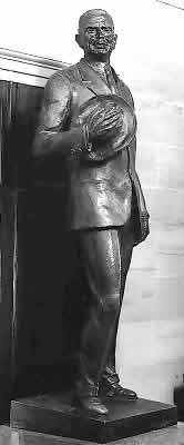 Statue of Dennis Chavez from the National Statuary Hall Collection in the U.S. Capitol. The Architect of the Capitol maintains the collection and provided the photograph. All states are invited to contribute two statues for display in the Statuary Hall of the U.S. Capitol. This statue of Senator Chávez is one of the two gifted by New Mexico to the collection.